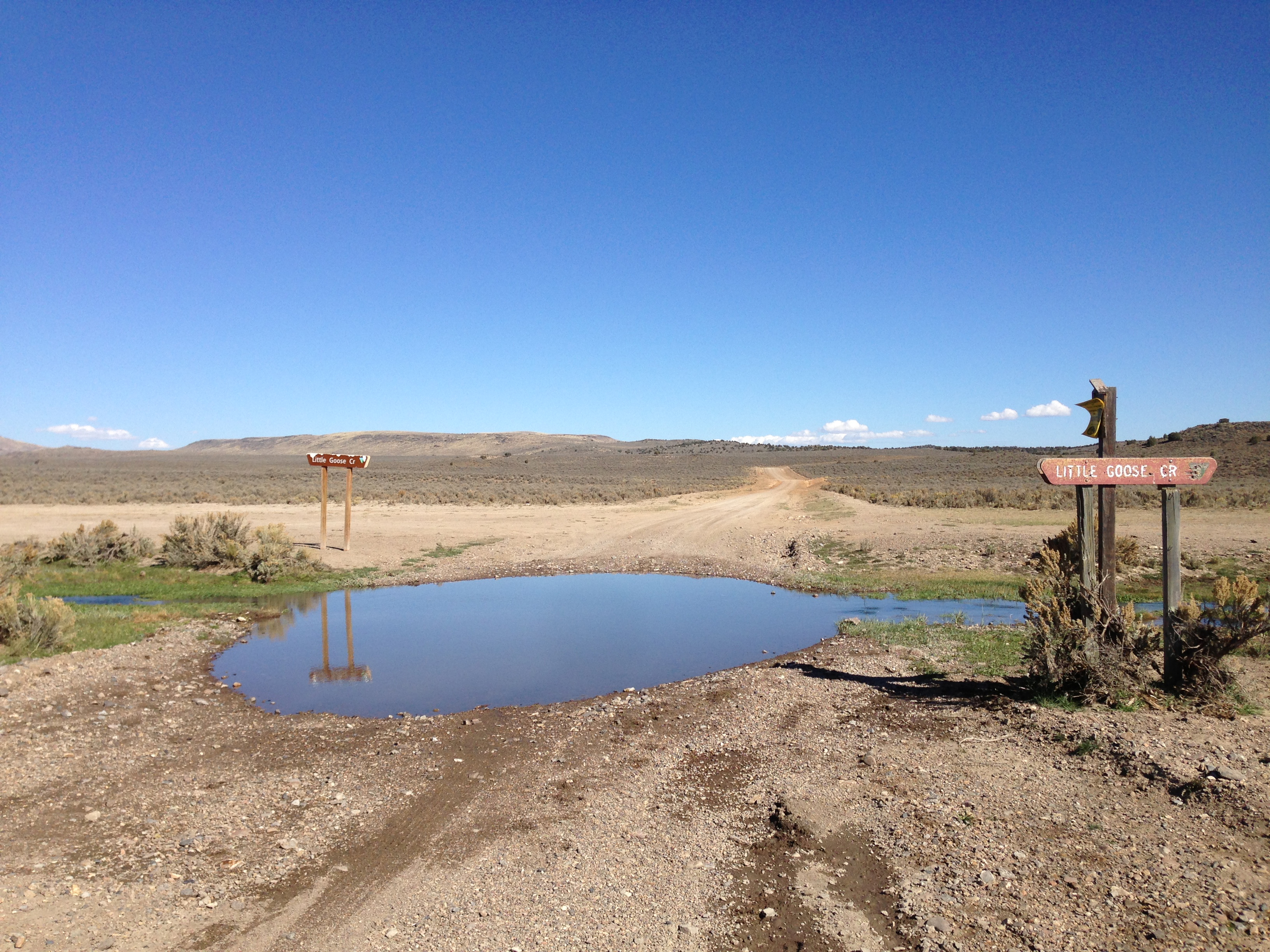 View north along Rock Springs Road (Elko County Route 763) about 22.8 miles north of Wilkins-Montello Road (Elko County Route 765) at the Little Goose Creek in Elko County, Nevada